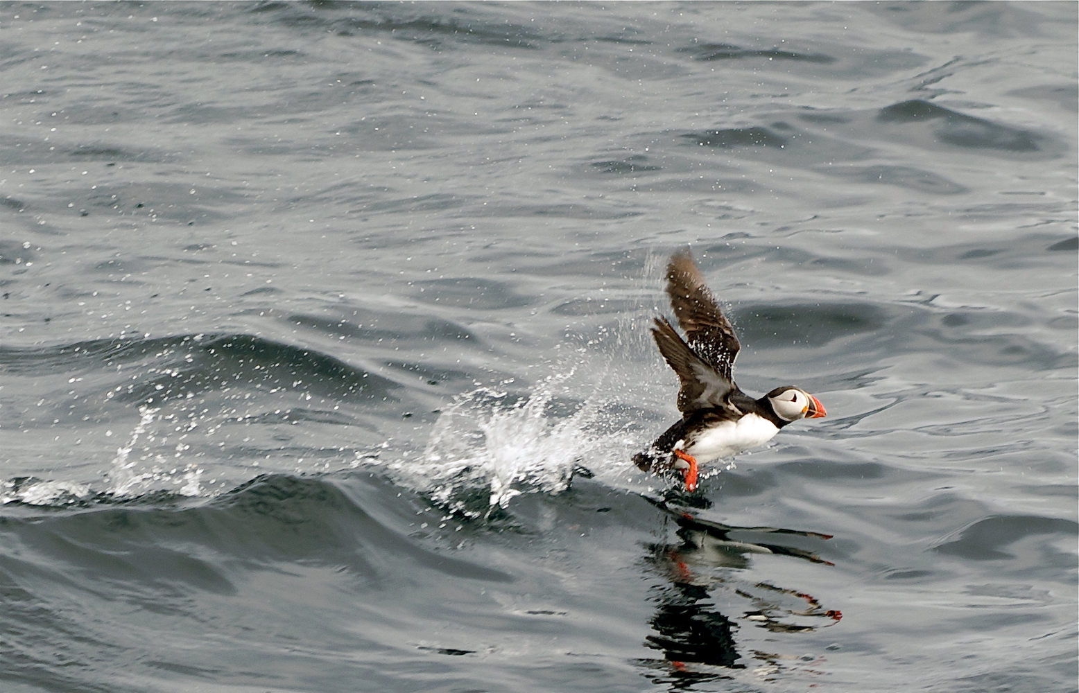 Starting Atlantic puffin (Fratercula arctica), Stø, Norway